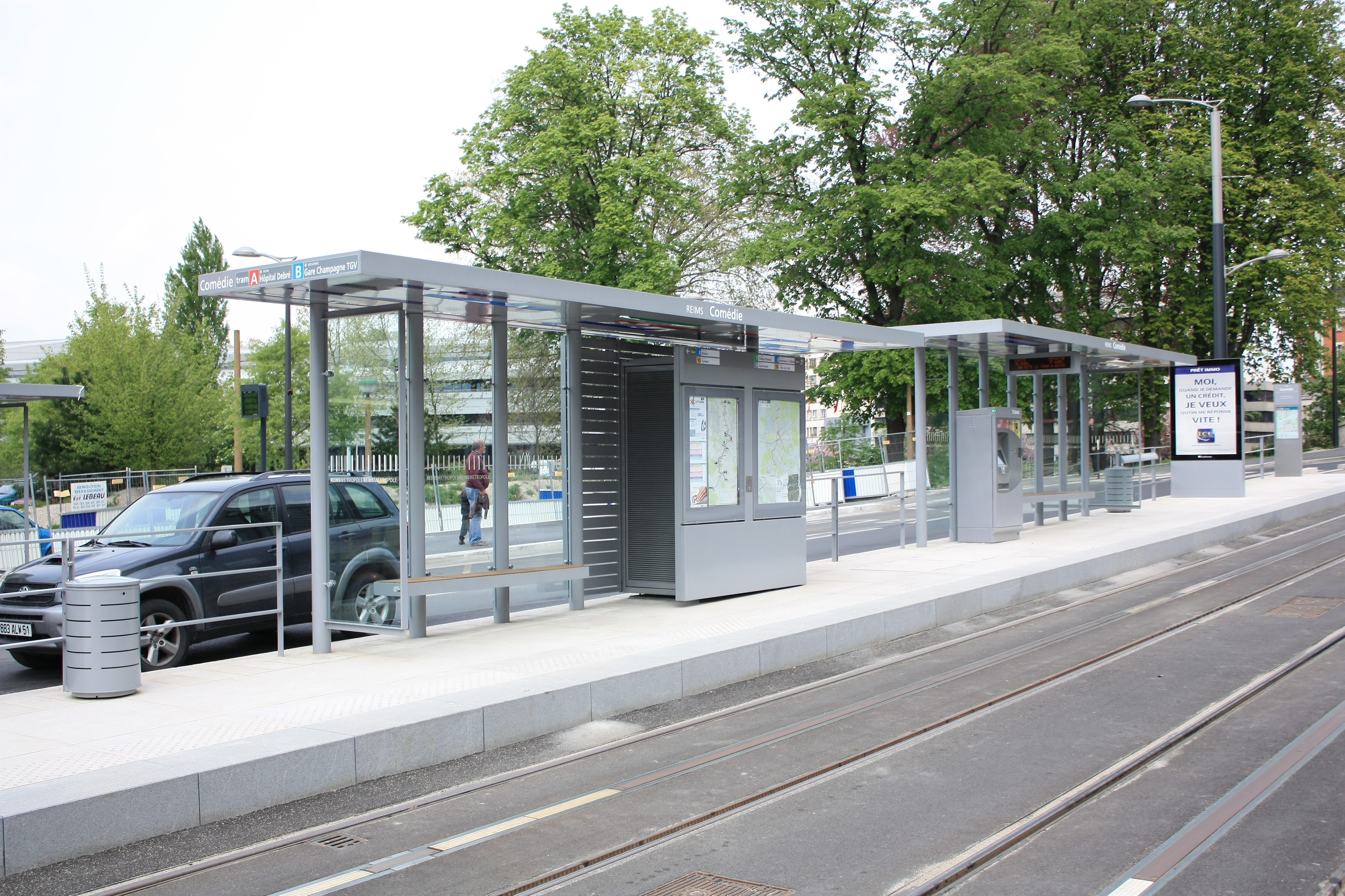 Tram station.